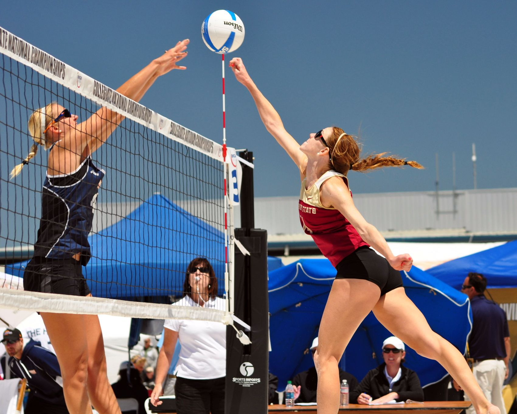 Senior Mallory Kiley Blocks vs Pepperdine. 2013 AVCA Collegiate Sand Volleyball Championship at Gulf Shores, Alabama. Florida State vs Pepperdine.